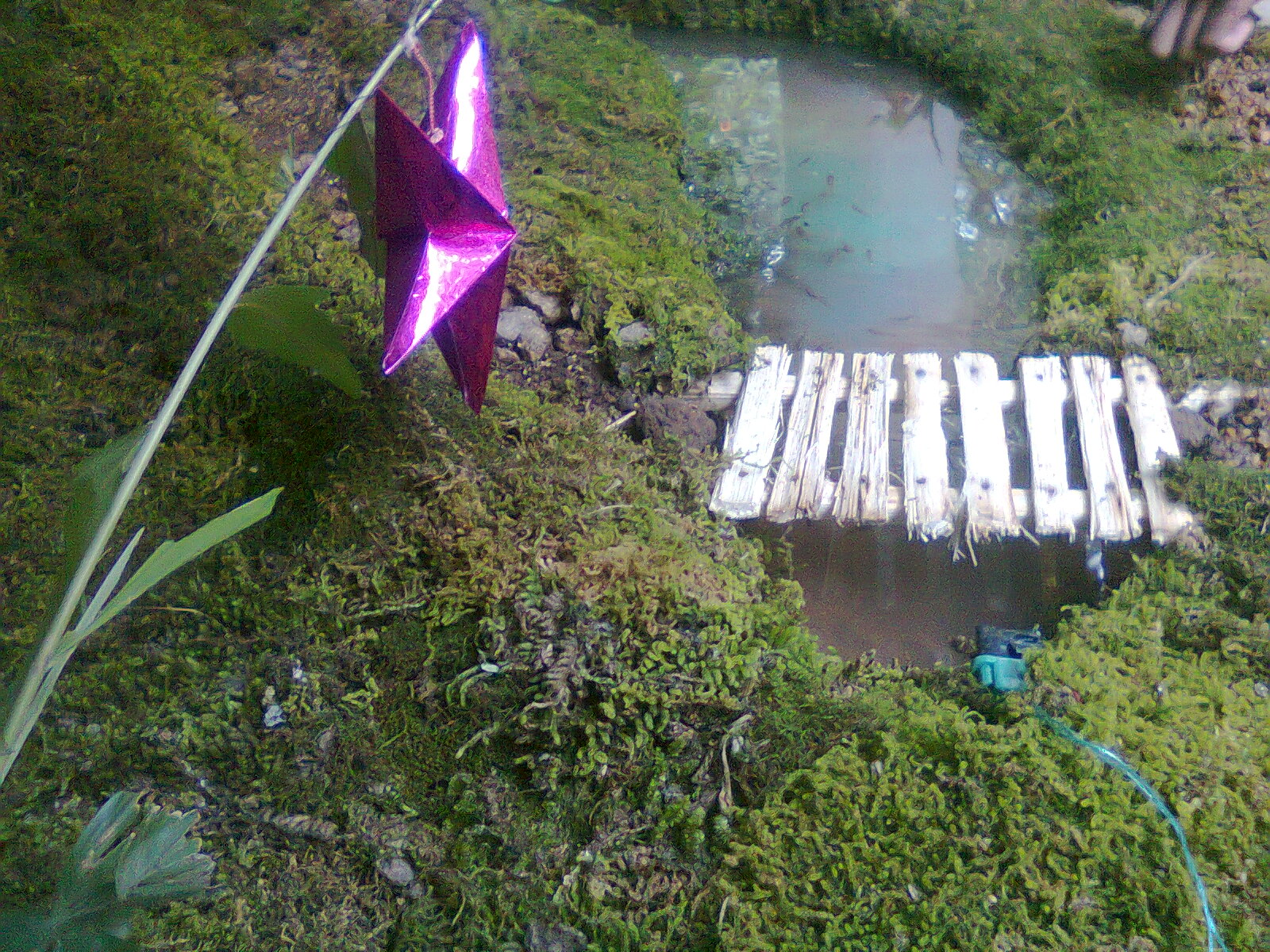 Chemmannar,Kerala